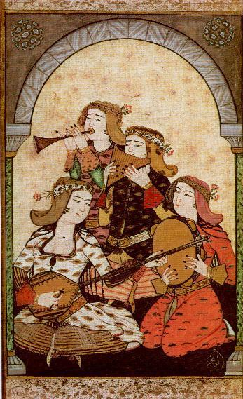 Female musical players. Ottoman miniature painting from the Surname-i Vehbi. Kept at the Topkapi Museum. Hazine. 2164, folio 17b